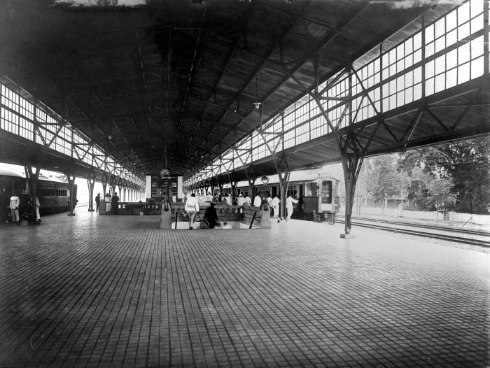 Railwaystation Pasar Senen in Batavia